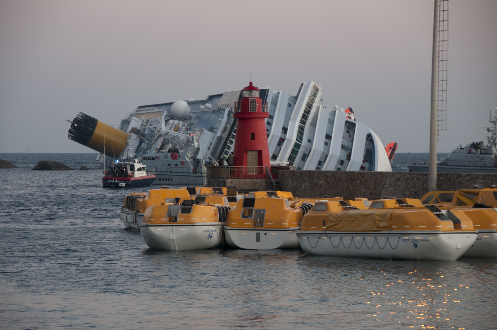 Collision of Costa Concordia